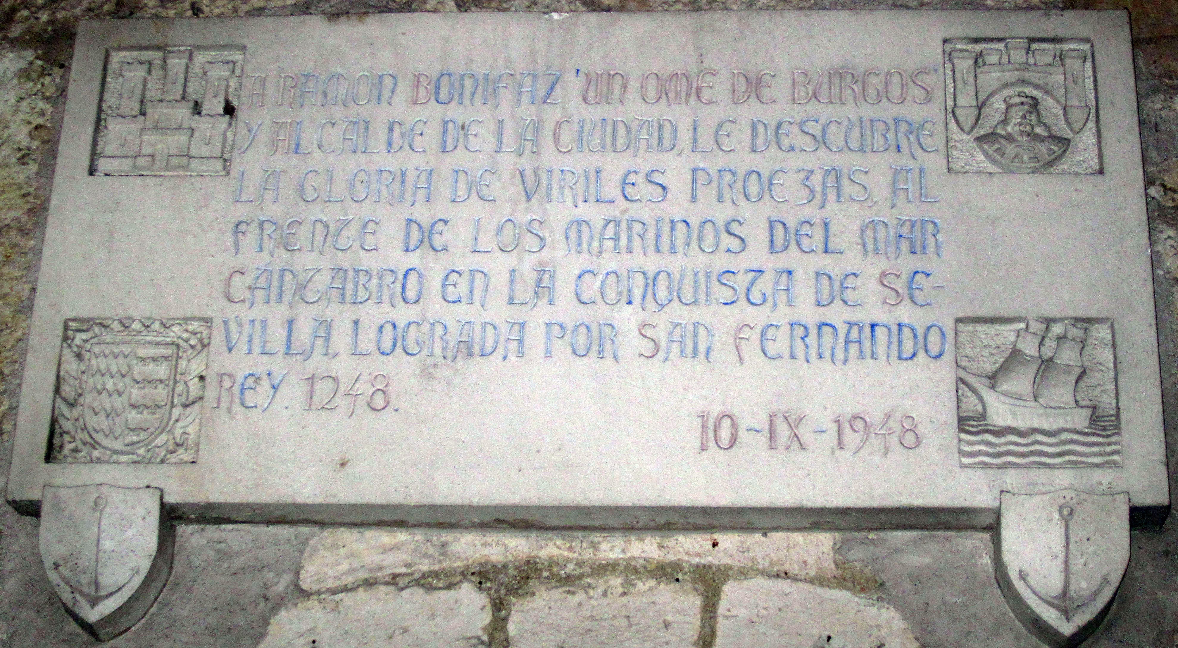 Ramon Bonifaz commemorative plaque at the Arco de Santa Maria in Burgos.